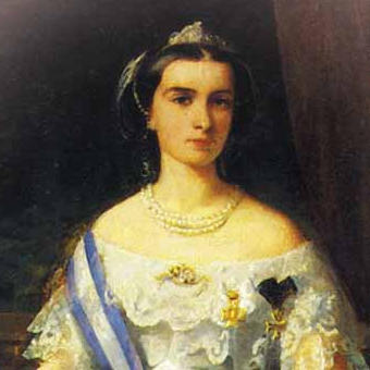 A portrait of Maria Sofia (1841-1925), Queen consort of Francis II of the Two Sicilies. Born as Maria Sophie Amalie in the Bavarian royal family of Wittelsbach she had the title of Duchess in Bavaria. She was the daughter of Maximilian, Duke in Bavaria and Ludovika, Royal Princess of Bavaria and was a younger sister of Empress Elisabeth ("Sissi") who married Emperor Franz Joseph of Austria. She married Francis in 1859 and he became King a few months later. Although the kingdom was lost in the drive to unite Italy during the siege of Gaeta (1860-1861) she demonstrated great courage during the battles and she remained a respected figure in Europe to her death.